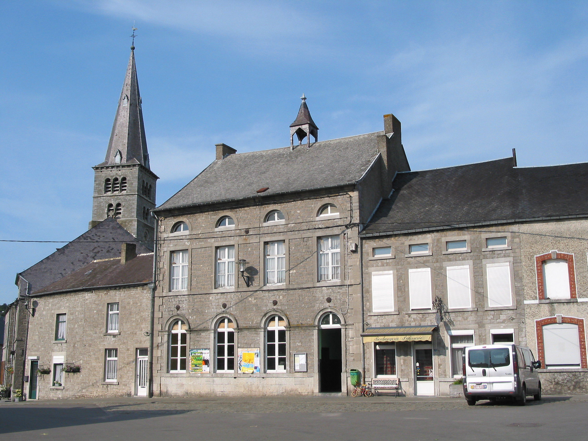 Petigny (Belgium), the previous communal house